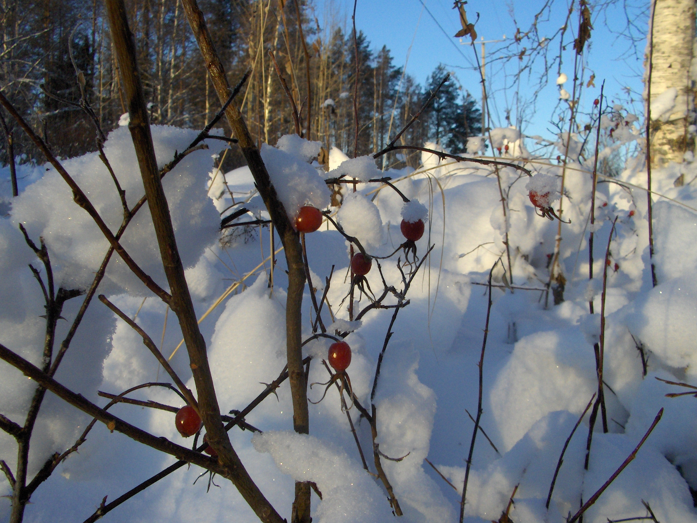 Wild Rosa majalis hips in snow